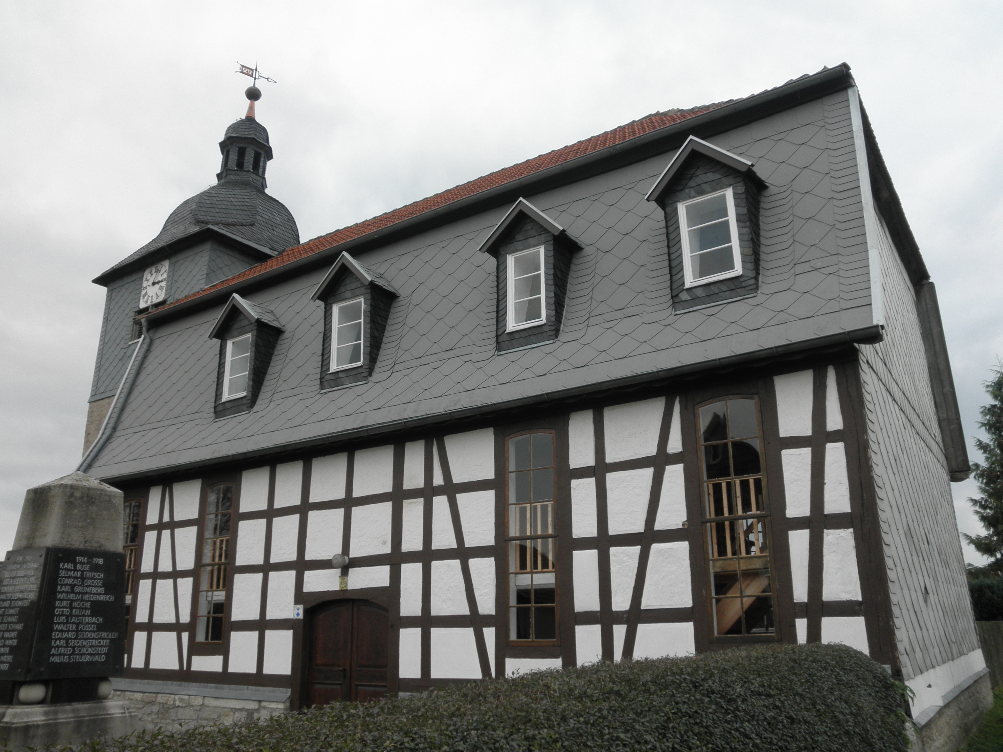 Church in Kleinbrüchter (Helbedündorf) in Thuringia